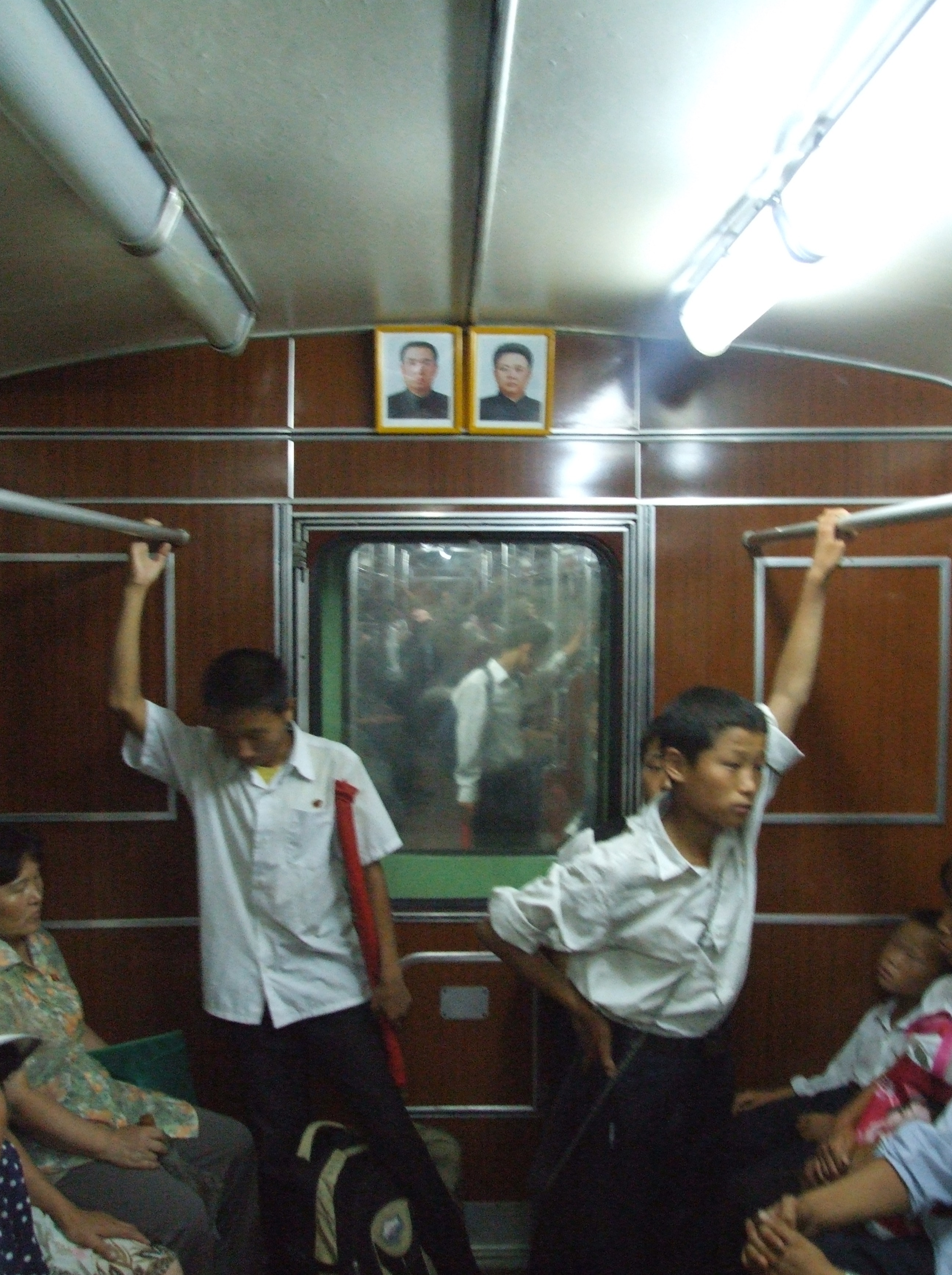 People in Pyongyang Metro